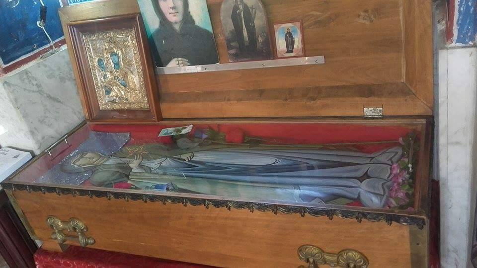 Pokrov Svete Petke